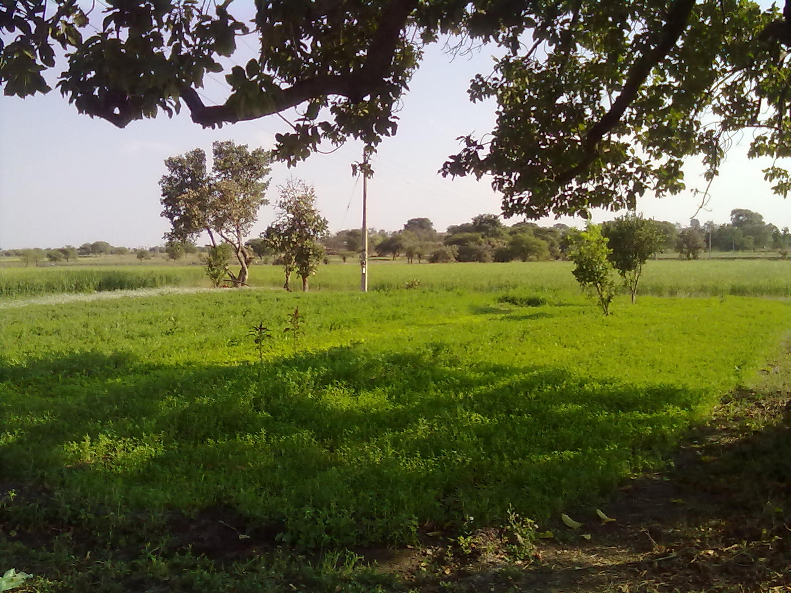 A farm in village with crops